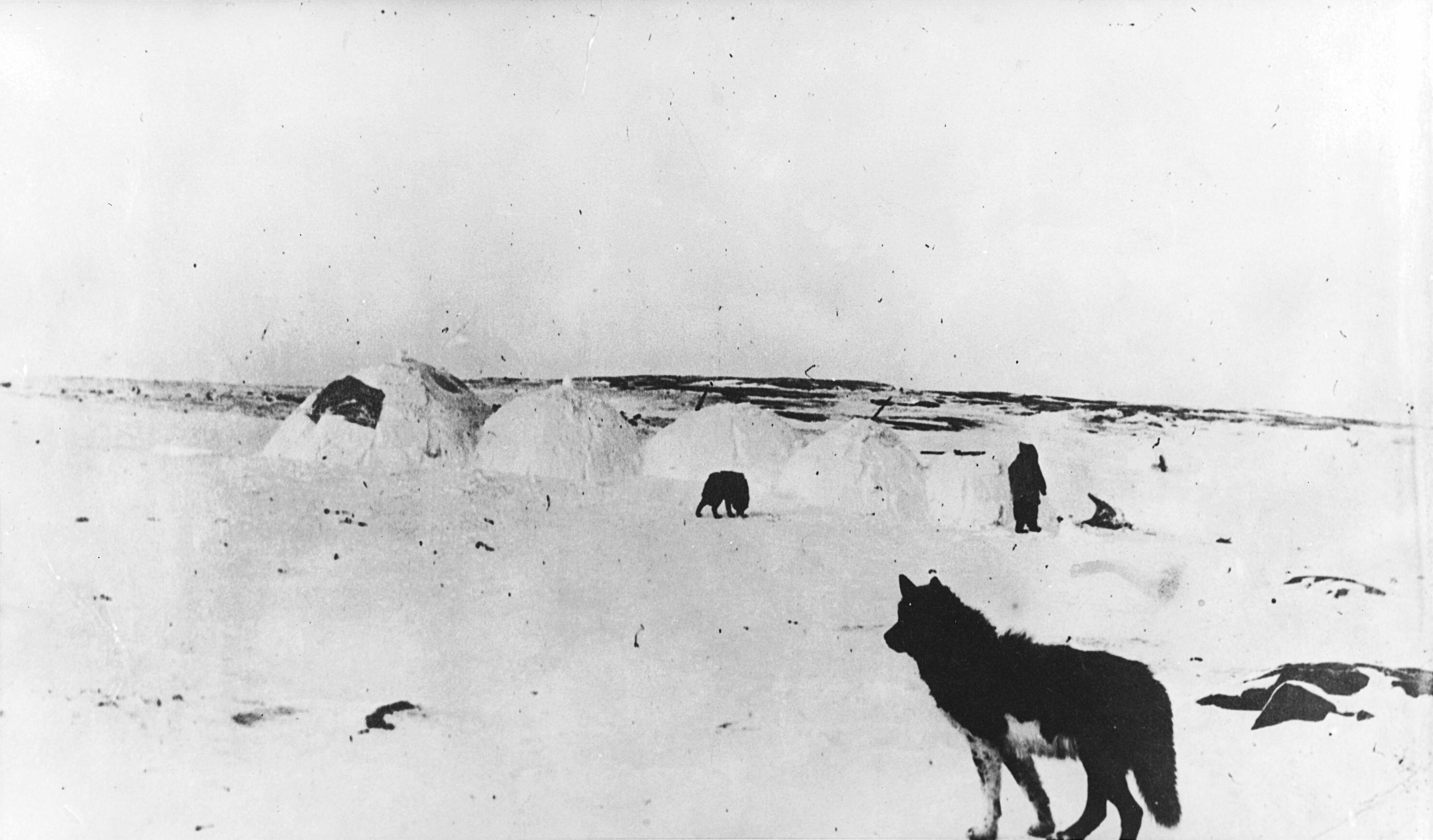 Photograph, Row of snow houses, Wakeham Bay, Hudson Strait, QC, about 1910, Anonymous, Silver salts on paper - Gelatin silver process - 14 x 24 cm